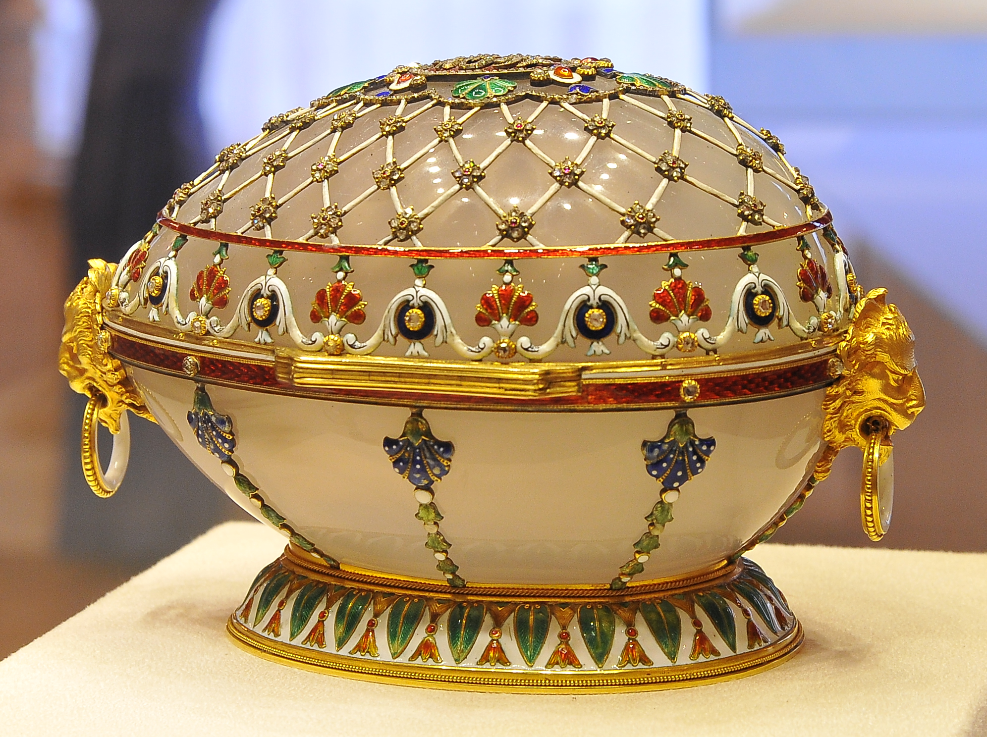 Imperial easter egg "Renaissance" from the collection of the Fabergé Museum in Saint Petersburg, Russia.